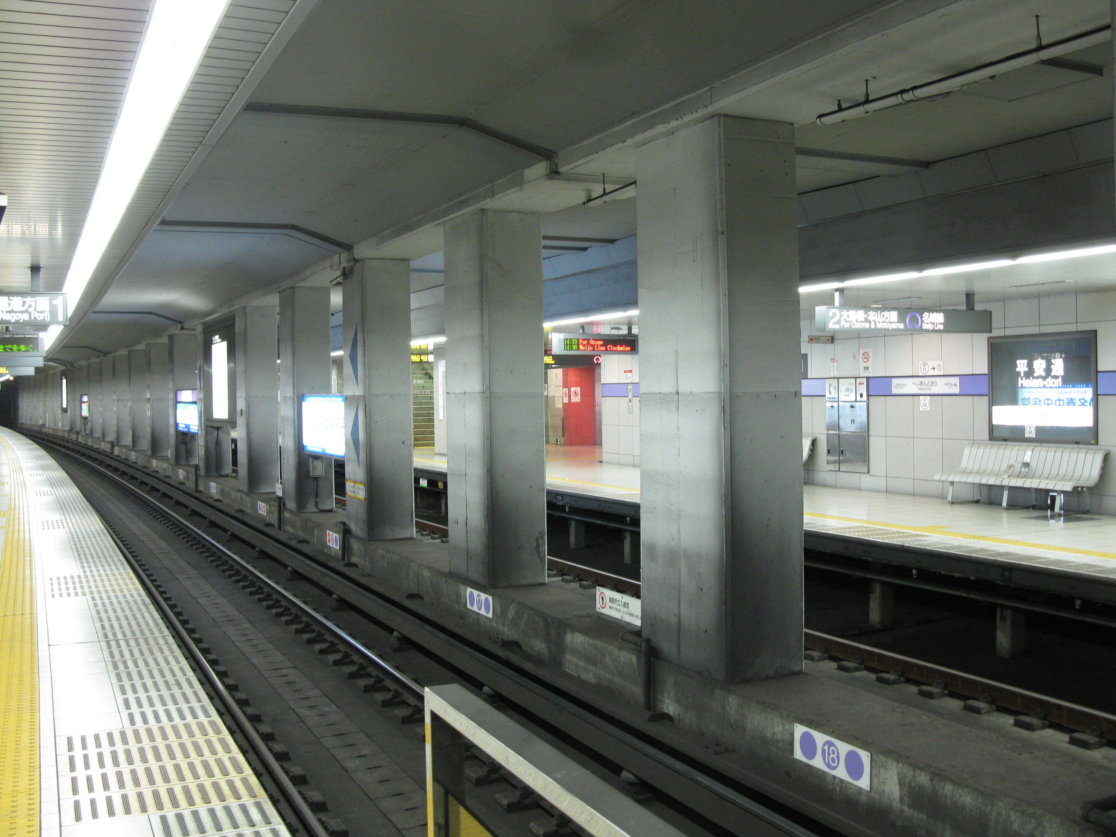 Heian-dōri Station platform (Nagoya Municipal Subway Meijō Line)